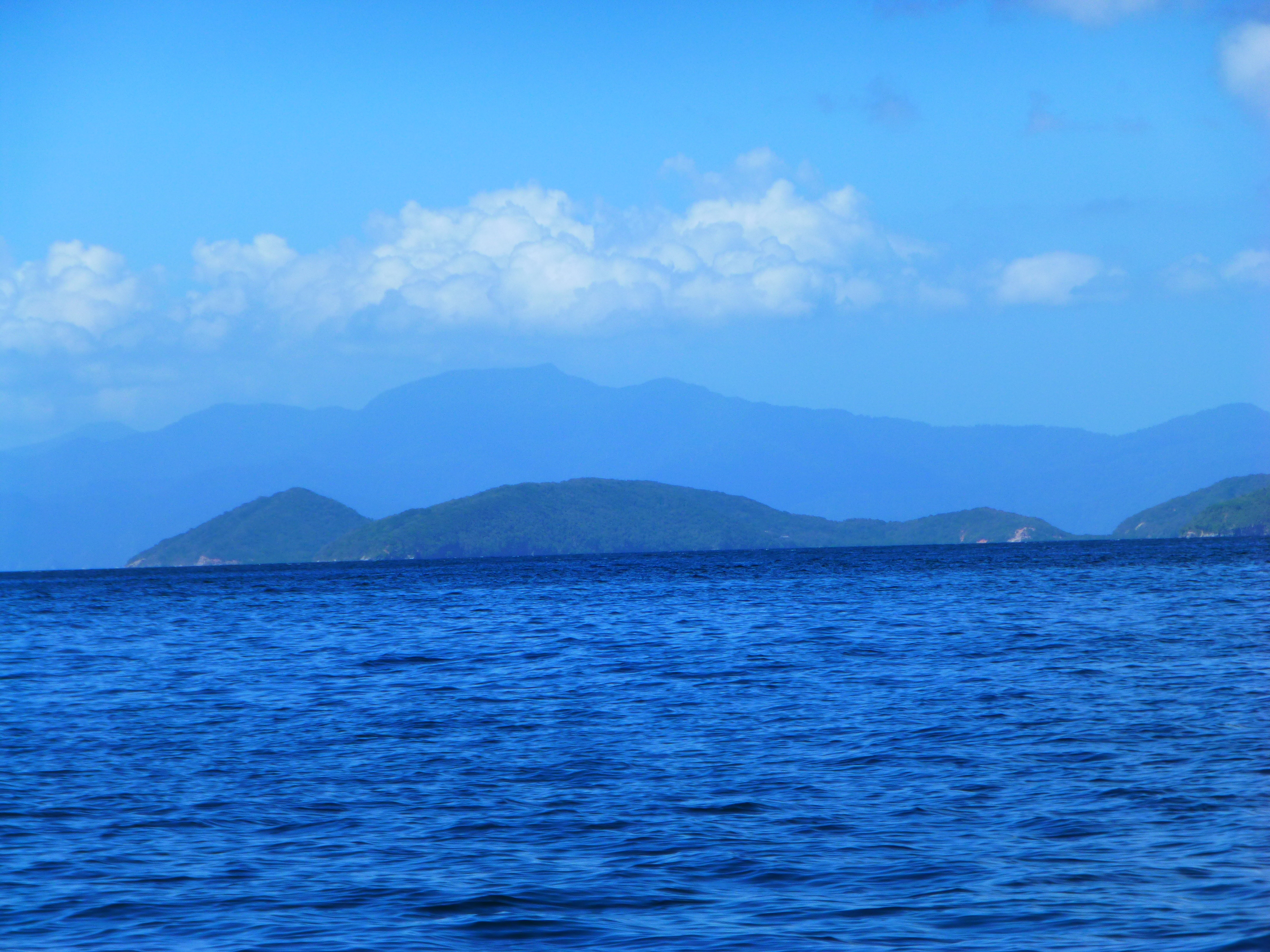 Chacachacare, seen from Chaguaramas, Trinidad. In the background (in the West): Venezuelan mainland.